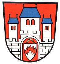 Wünnenberg Historical Coats of Arms, granted on September 25, 1908.